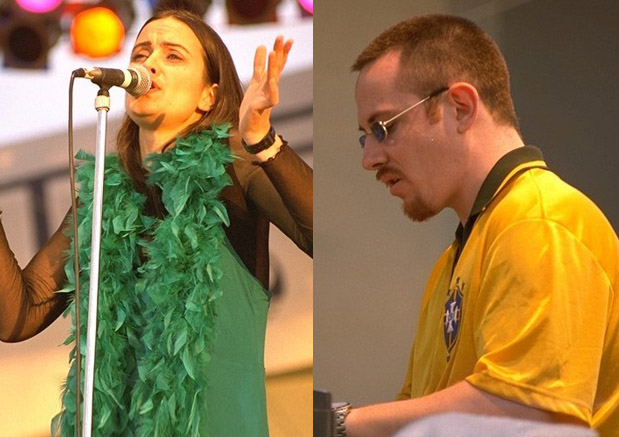 Corinne Drewery of Swing Out Sister performing at Bayfront Park in Miami Beach, FL Andy Connell of Swing Out Sister performing at Bayfront Park in Miami Beach, FL